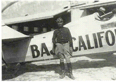 Mexican military aviator, Roberto Fierro Villalobos next to the mexican-built Baja California-2 (BC-2) biplane aircraft, built in Tijuana, Baja California, Mexico in 1928.